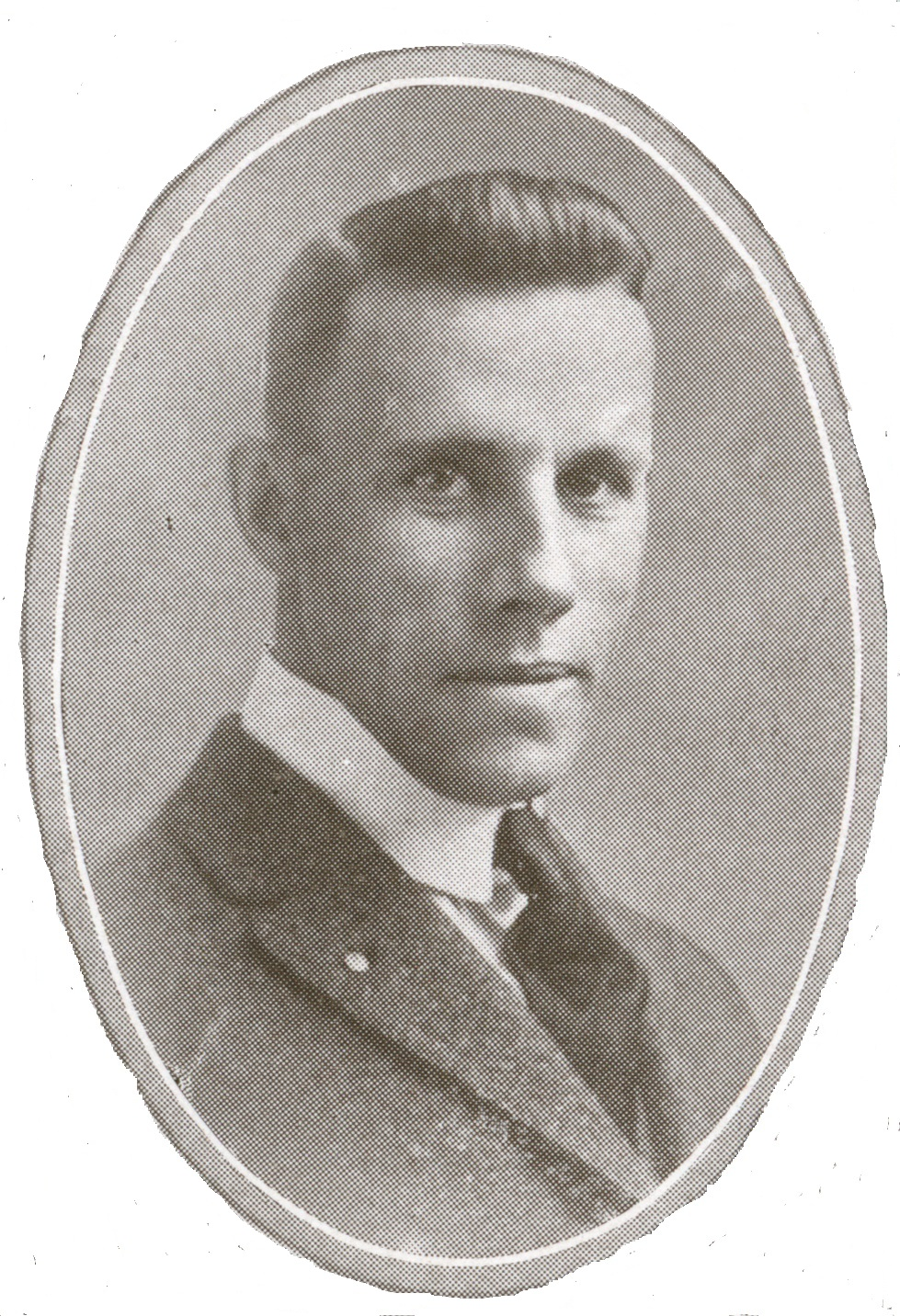 McCullough from photo appearing in dedication pamphlet for Oregon City Arch Bridge, 1922